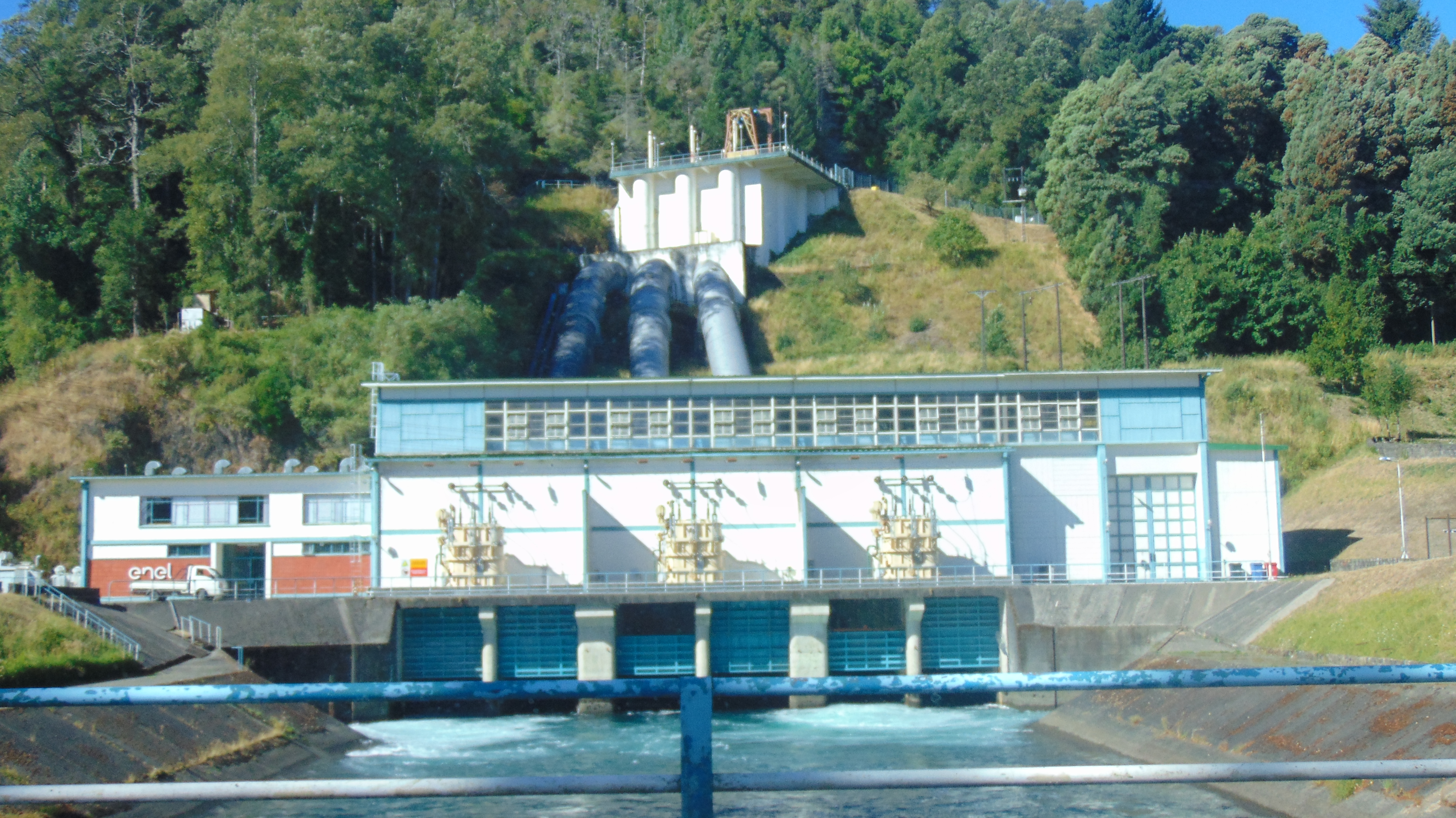 Pullinque Hidroelectrical Plant, February 2019